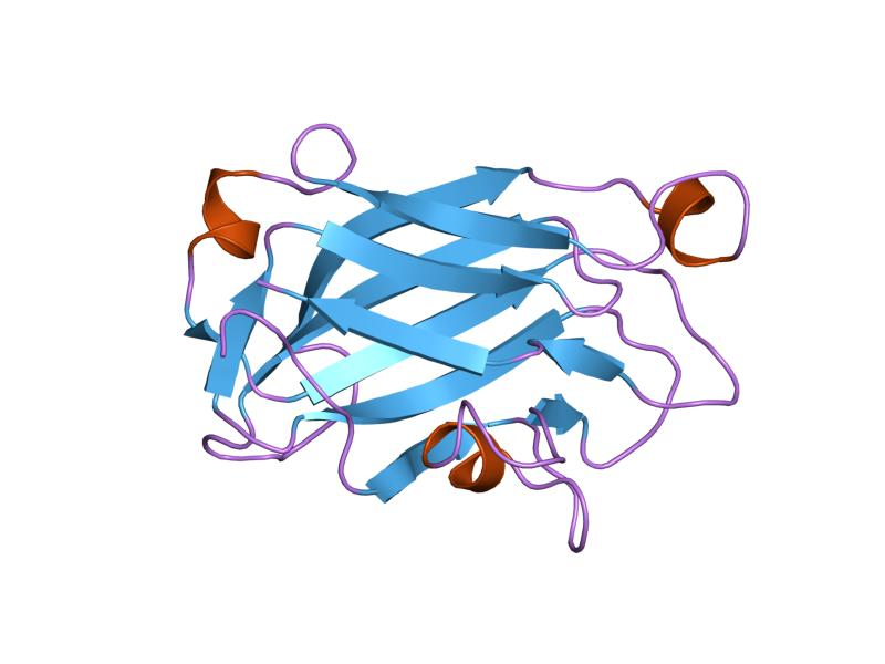 Cartoon representation of the molecular structure of protein registered with 1xna code.